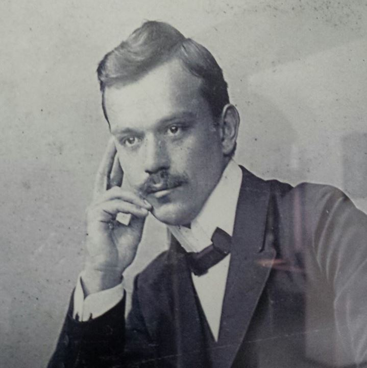 This is my photo of Saint Nikolaj Velimirović. It is a photo of a framed photo in the Saint Nikolaj Velimirović museum in Valjevo.